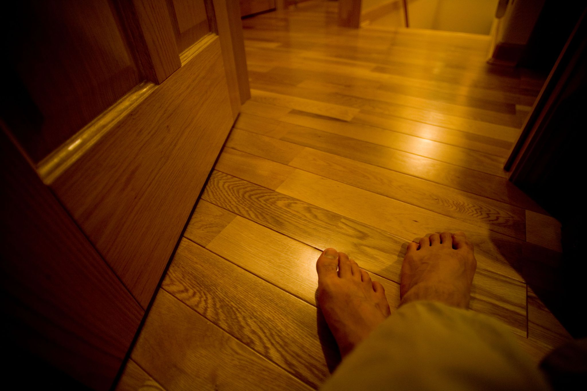 Hikikomori night